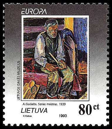 Postage stamps of Lithuania, 1993. Issue on the program EUROPE.